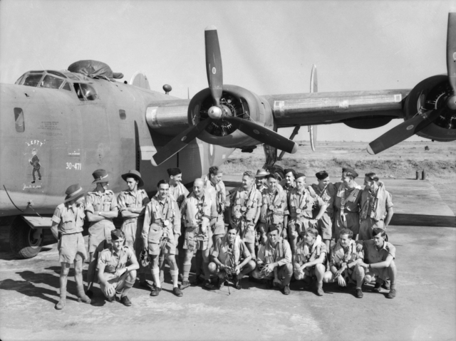 Australian and New Zealand personnel assigned to the No. 355 Squadron RAF, at Salbani, Bengal, India, in 1944.